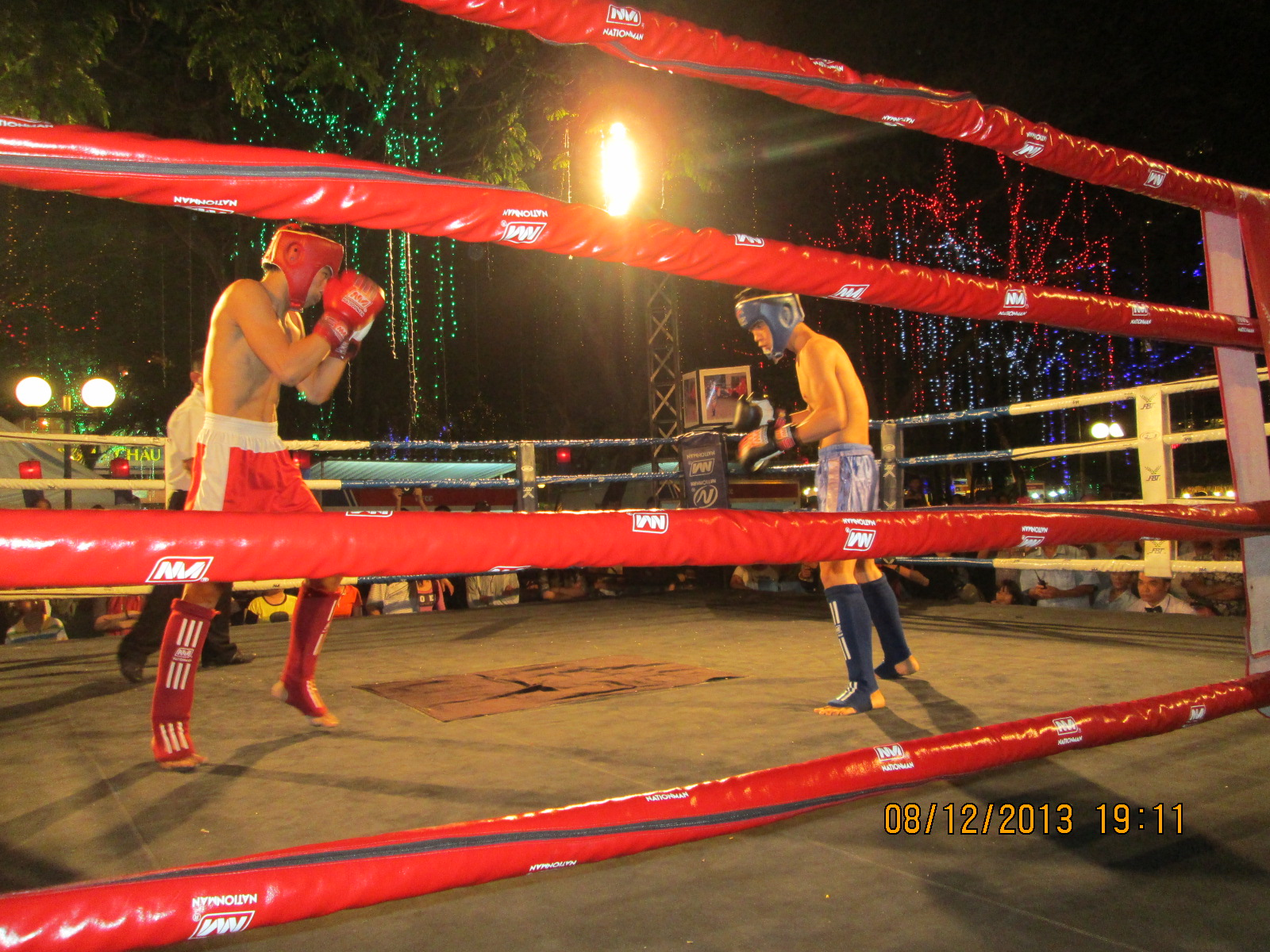 A "Kickboxing " tournament held in Park 23-9 opposite Pham Ngu Lao road.